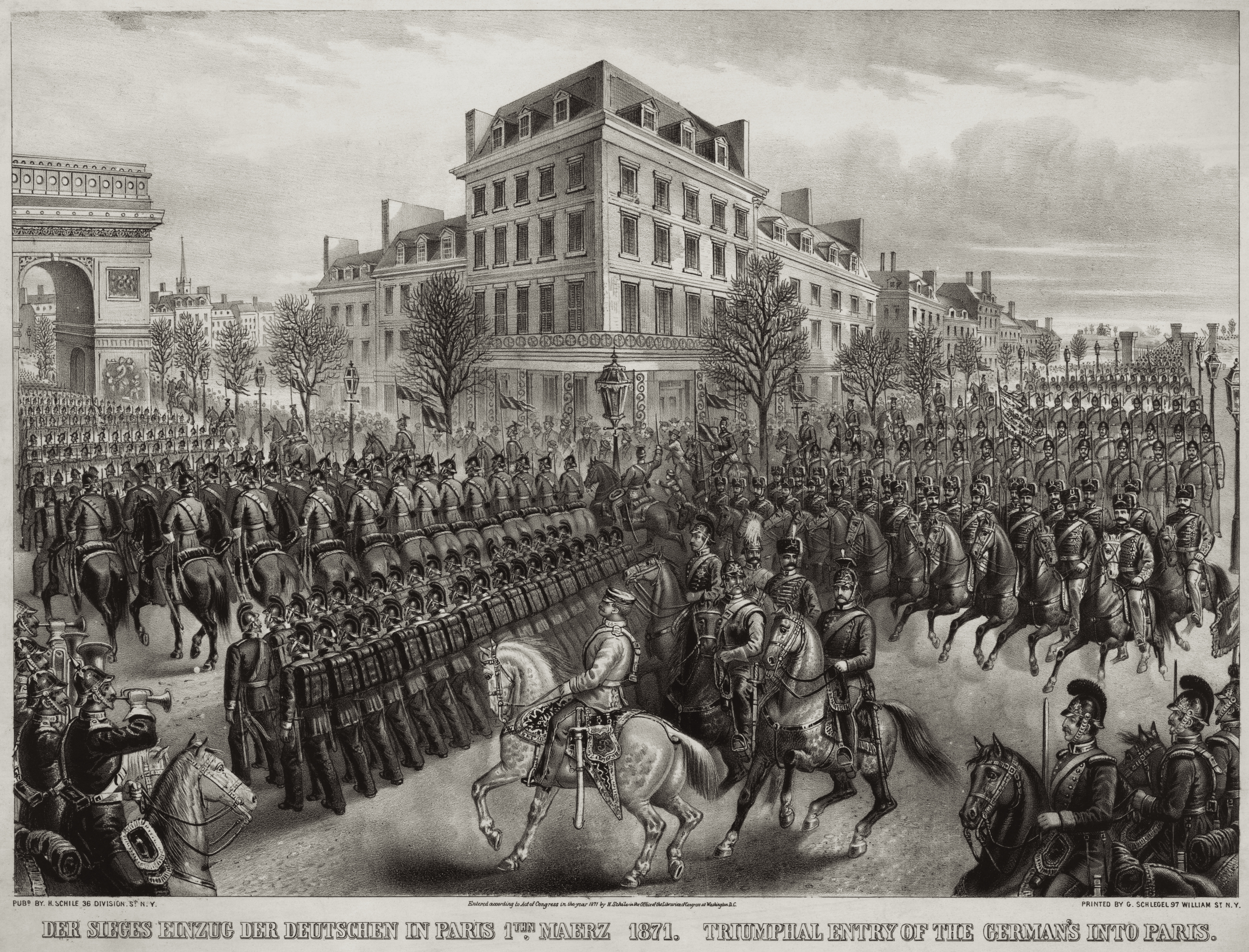 Triumphal entry of the Germans into Paris.